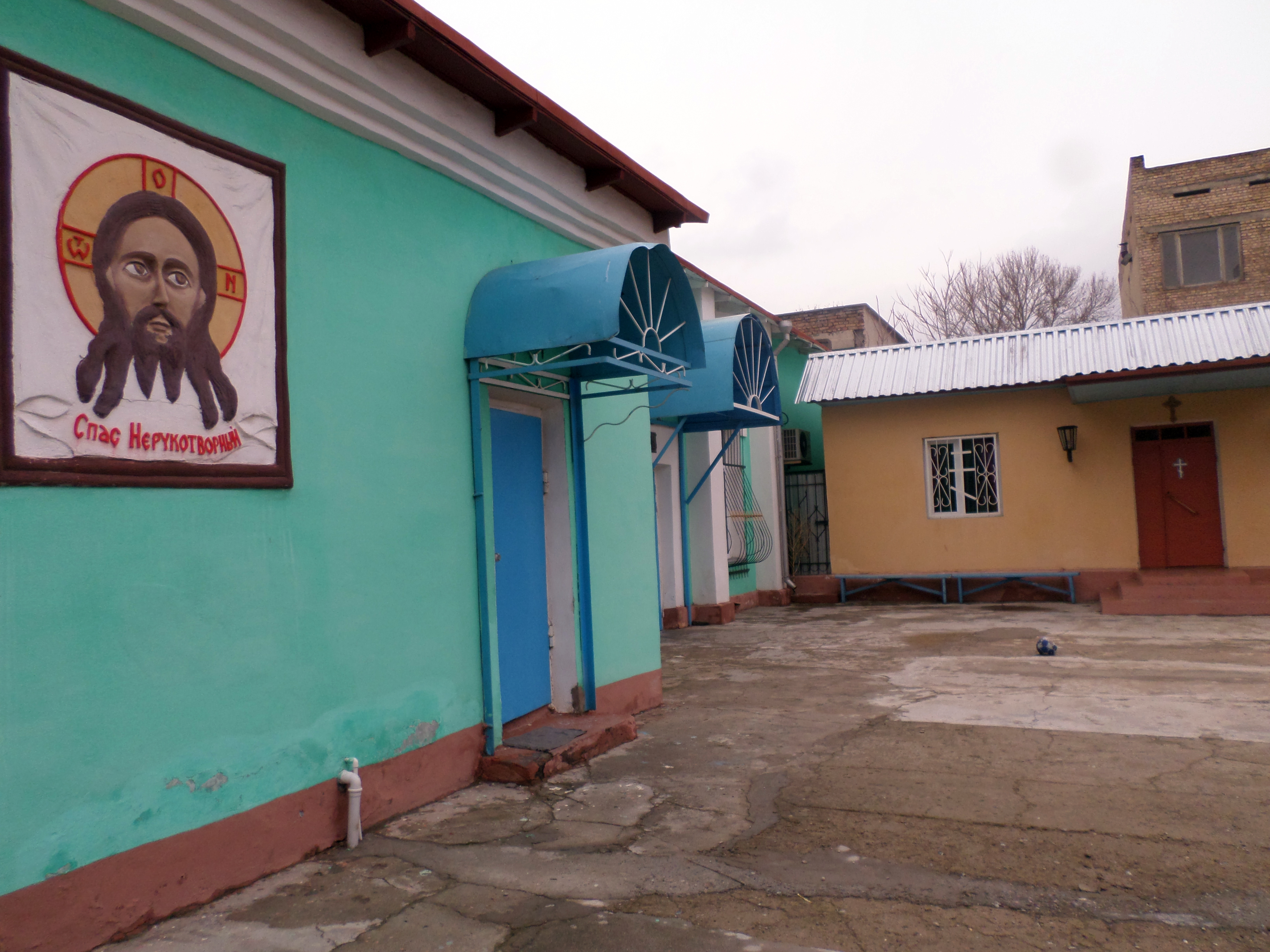 Church in Bekobod